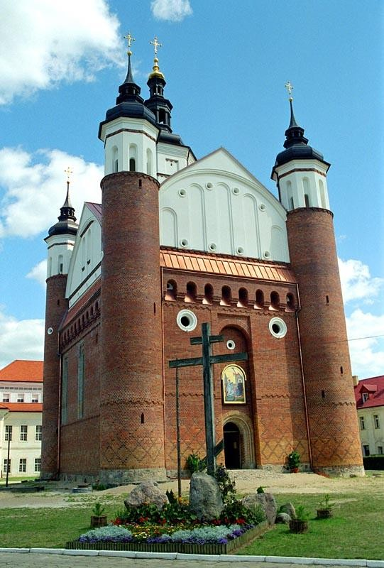 Church of the Annunciation, part of the Orthodox monastery in Supraśl, Poland from with the permission of the author. Photo from 2003.